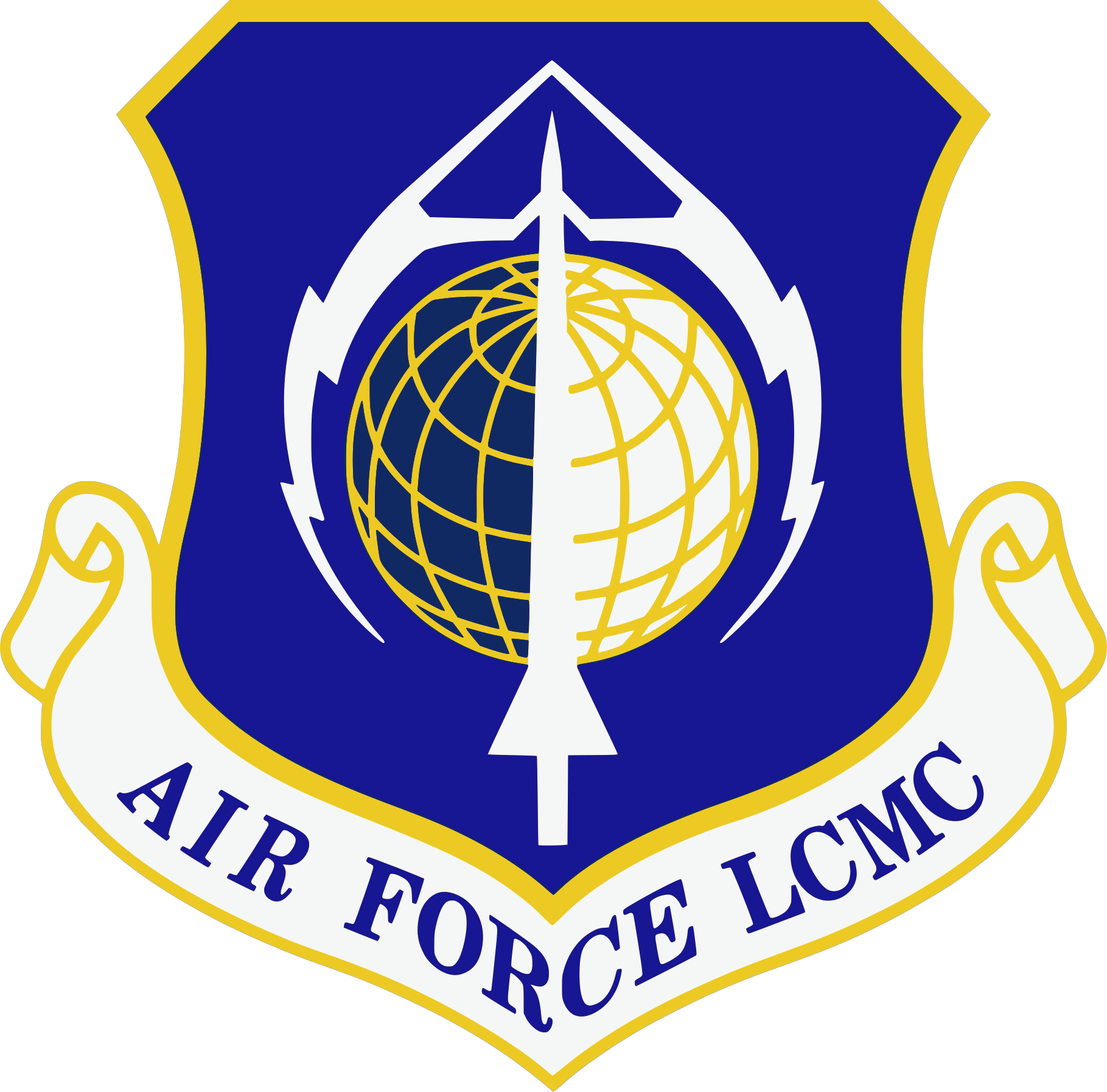 Updated AFLCMC shield with a transparent background.